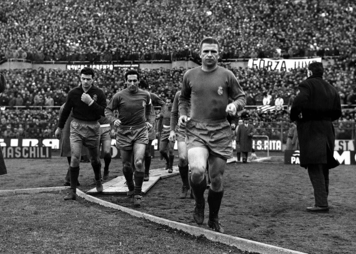 Turin (Italy), Communal Stadium, February 14, 1962. From left to right: Real Madrid C.F.'s footballers José Araquistáinin, Francisco Gento and Ferenc Puskás come back to the field for the 2nd half of their victorius away match versus Juventus F.C. (0-1), 1st leg of the 1961–62 European Cup quarter-finals.